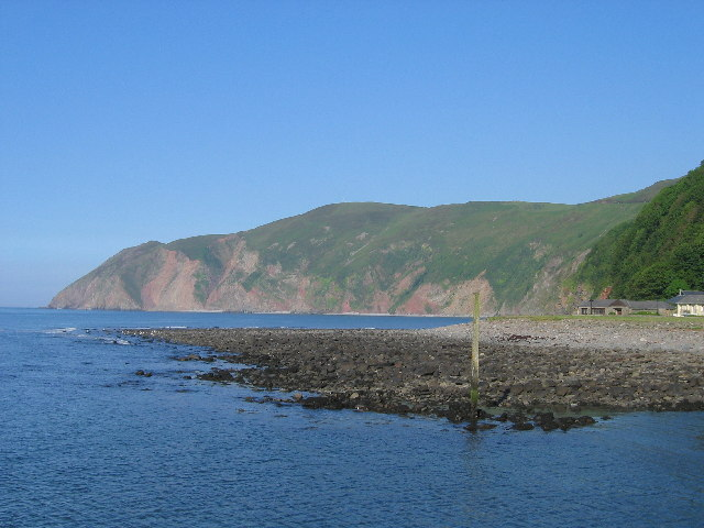 Porlock Bay From Porlock Weir, Somerset